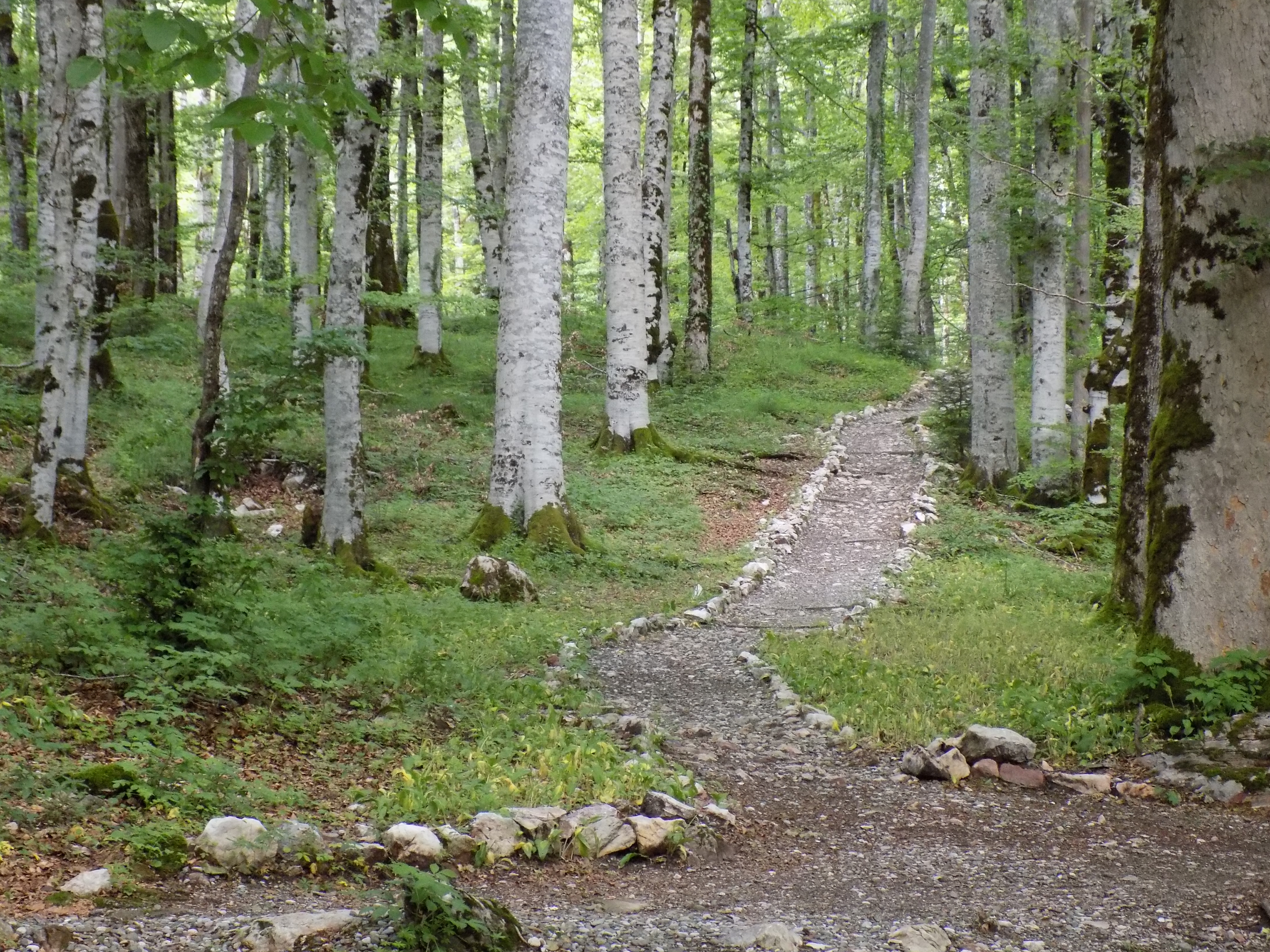 Biogradska Gora National park, the oldest protected natural resource in Montenegro